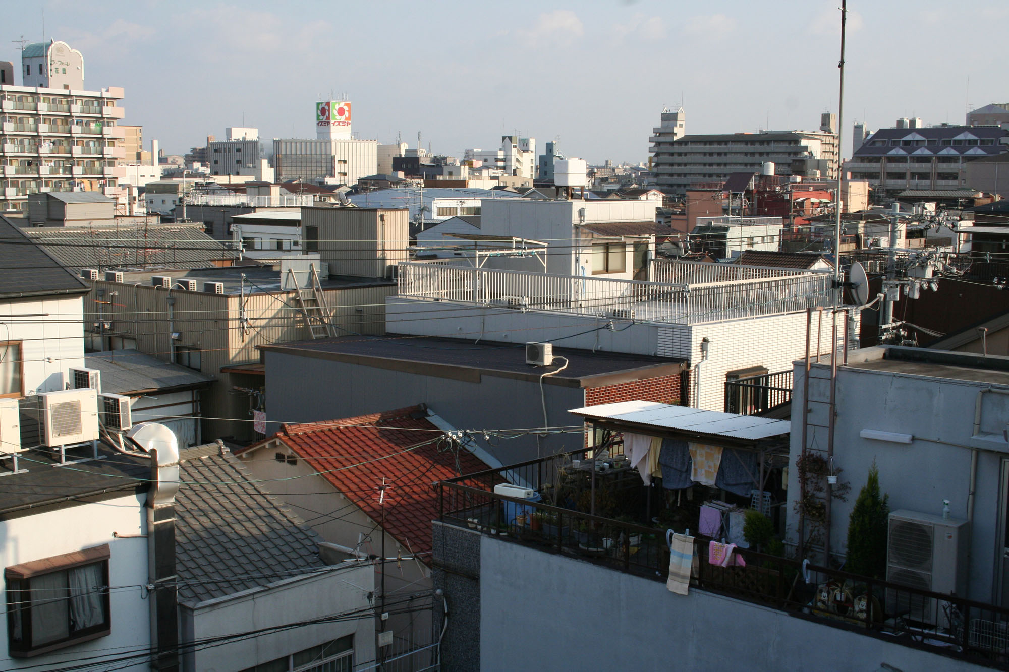 Taken in Nishinari-ku, Osaka